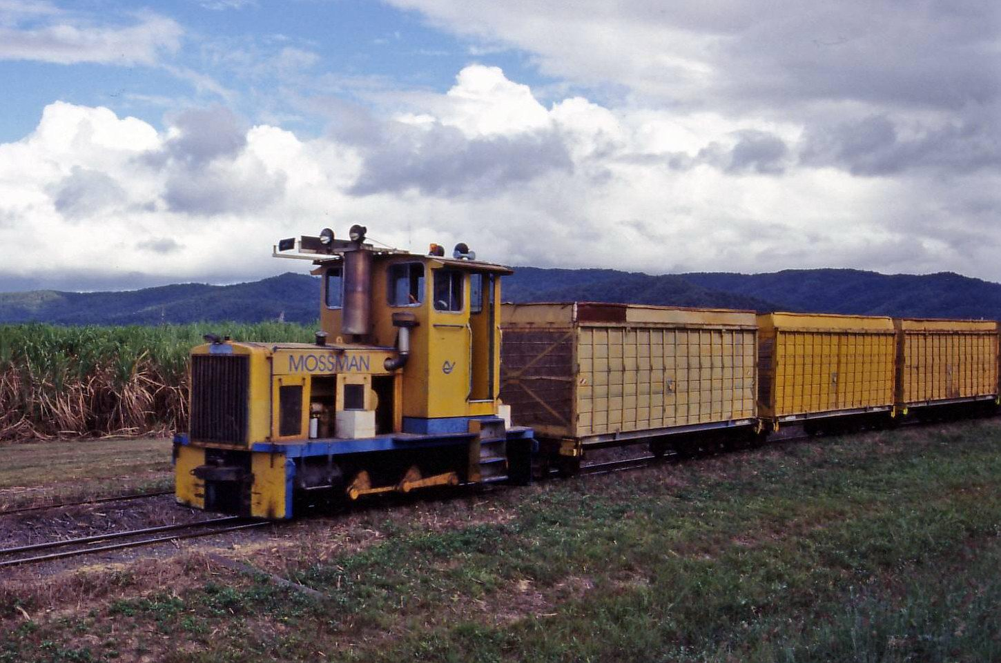 Sugar Cane Railway in Mossman, Australia